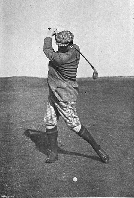 A circa 1890 photograph of Scottish golfer Samuel Mure Fergusson. --♥Golf (talk) 19:06, 19 April 2015 (UTC)